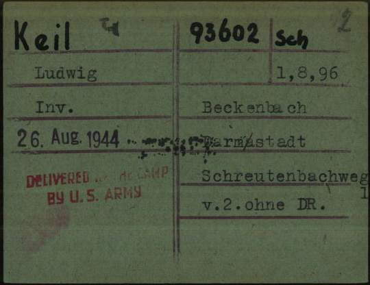 Registration card of Ludwig Keil as a prisoner at Dachau Nazi Concentration Camp. Red stamp means he was liberated from Dachau by the U. S. Army.